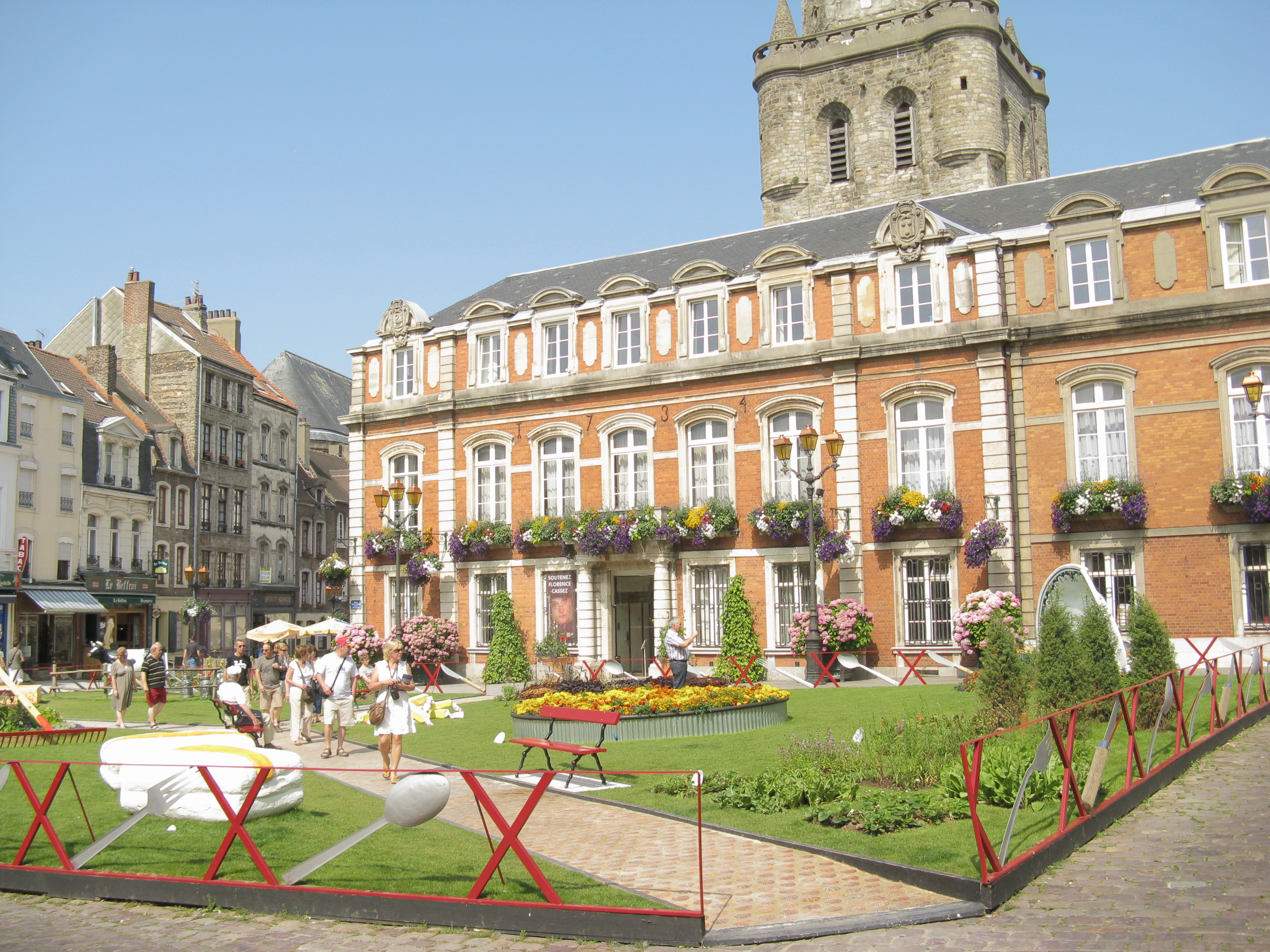 Boulogne-sur-Mer, Pas-de-Calais, France.